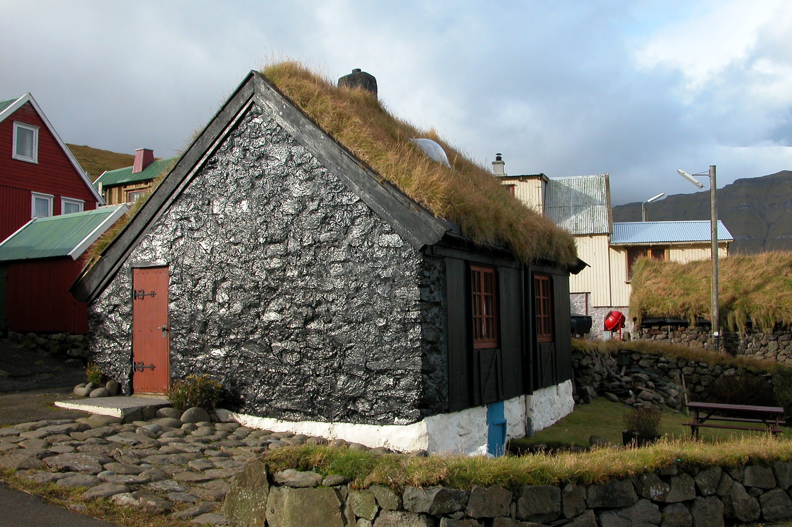 Elduvík in Eysturoy, Faroe Islands.